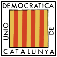 Symbol of Unio Democratica de Catalunya